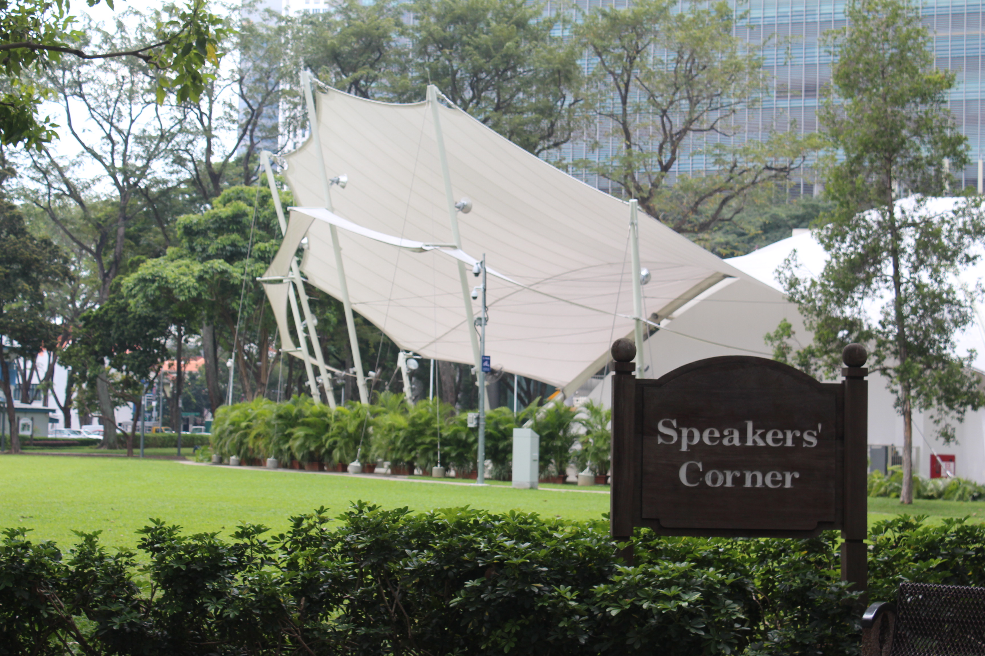 Speakers' Corner in downtown Singapore.